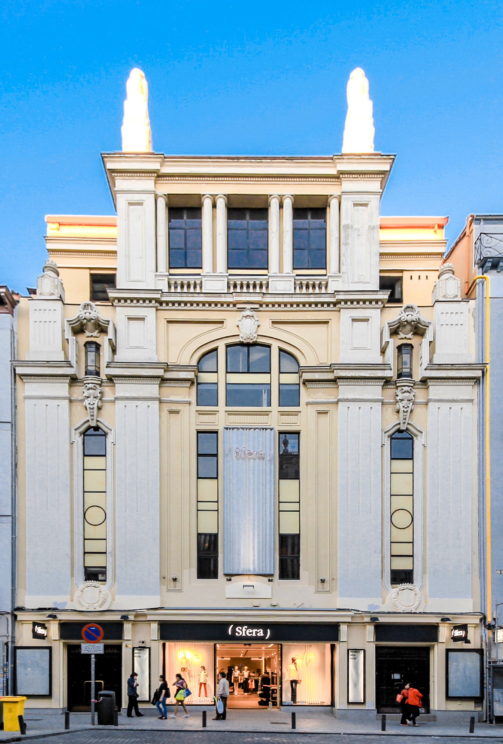 Building at 118 Calle de Fuencarral (street) in Madrid (Spain). It was designed by architect José de Azpiroz and built from 1925 to 1926 as Cine Bilbao (a cinema).